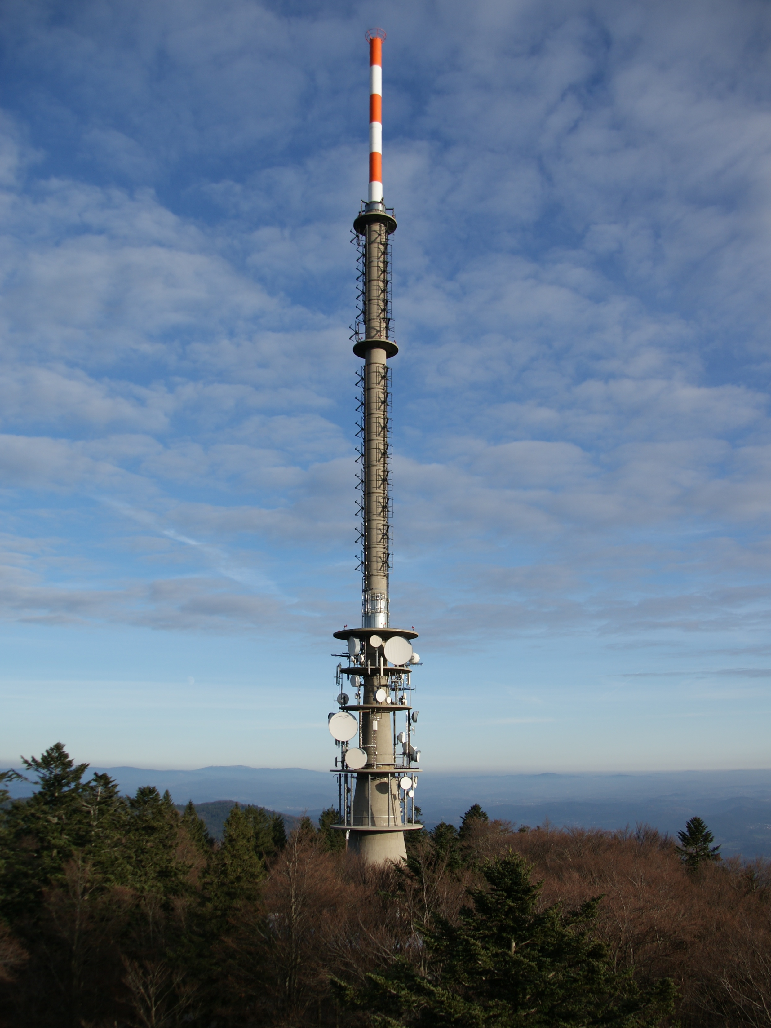 Television tower on the Brotjacklriegel in the Bavarian Forest